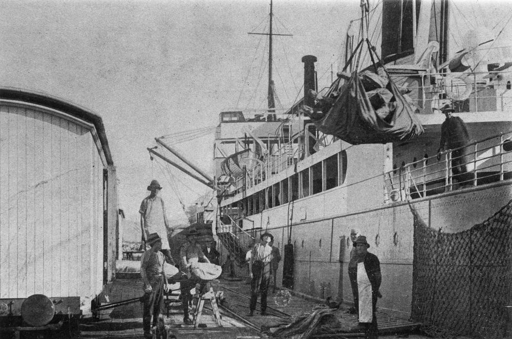 Wharf workers loading a shipment of frozen meat, Townsville, 1929.